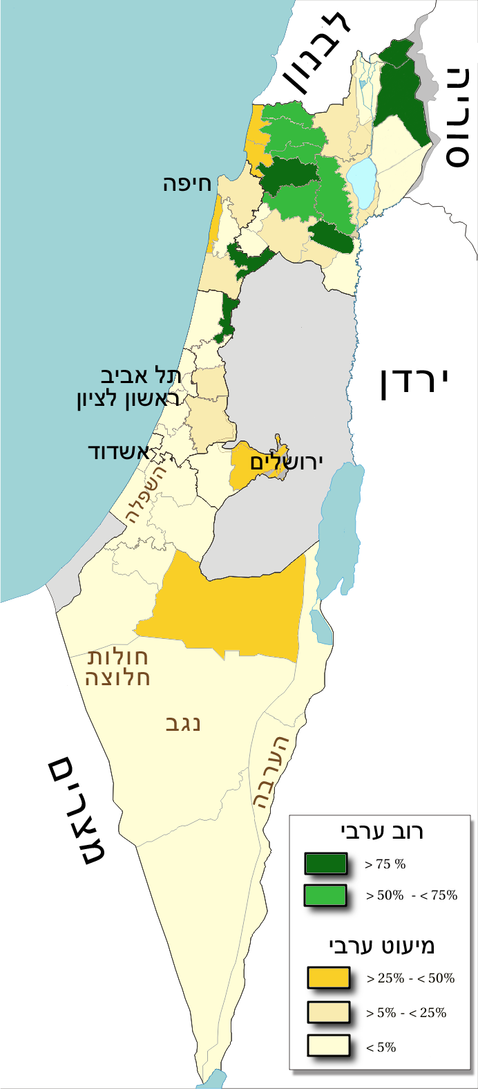 Map of the officials 50 "natural regions" of Israel, with their proportions of arab population. The map includ the Golan heights and east Jerusalem, two areas annexed by Israel, annexions not recognize by UNO.